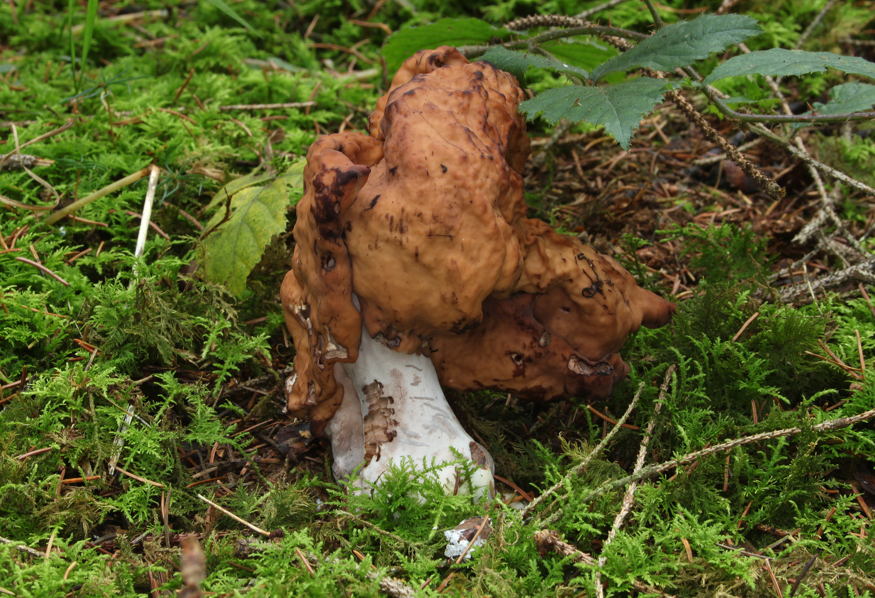 Hooded False Morel or Elfin Saddle, Gyromitra infula, Family: Discinaceae, Location: Germany, Ulm, Eggingen. Only area geotagging because very rare species. Thanks to R. Seibert (AMU, Mycological Working Group Ulm) to show me the location.